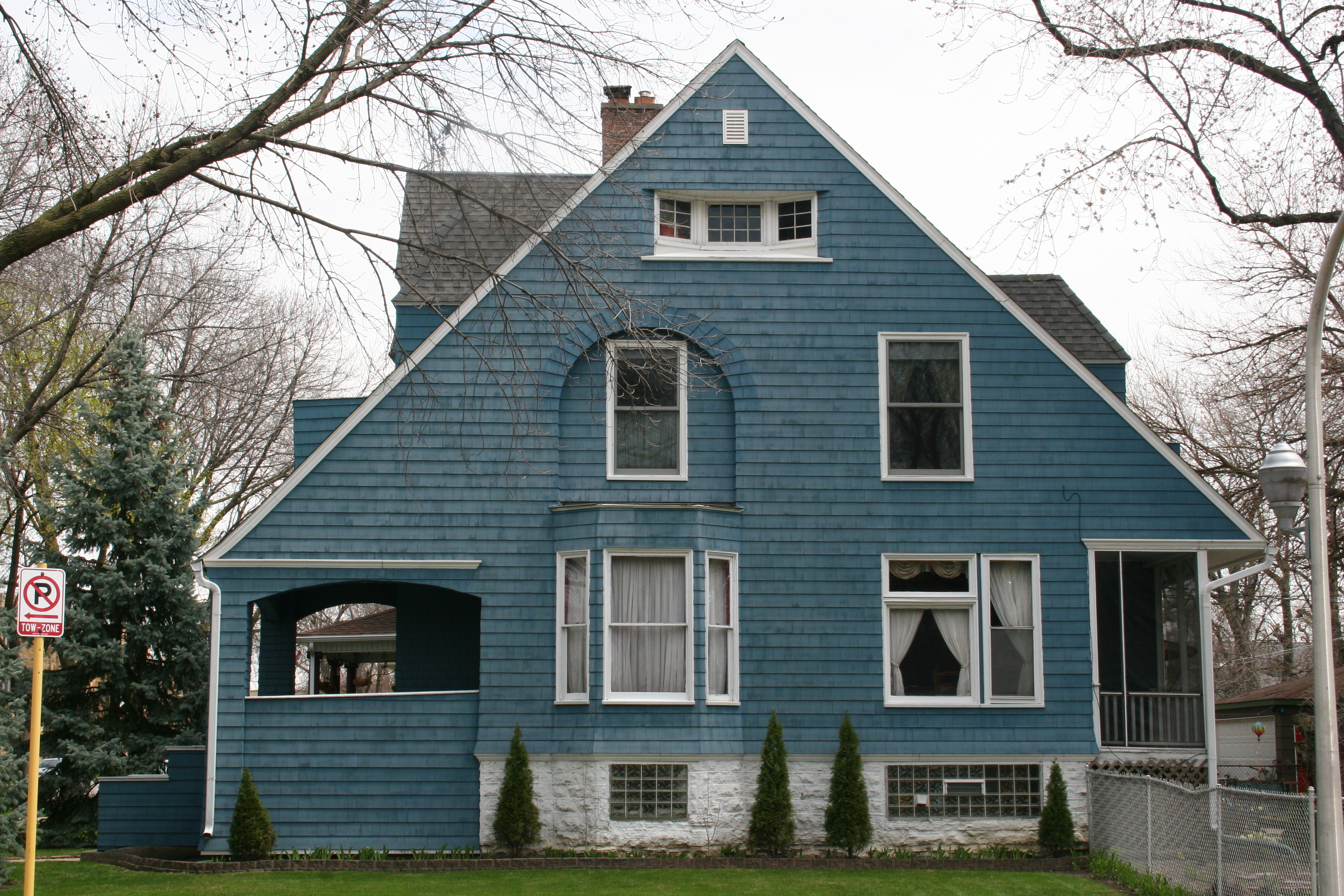 One of four houses by F R Schock in Chicago, IL